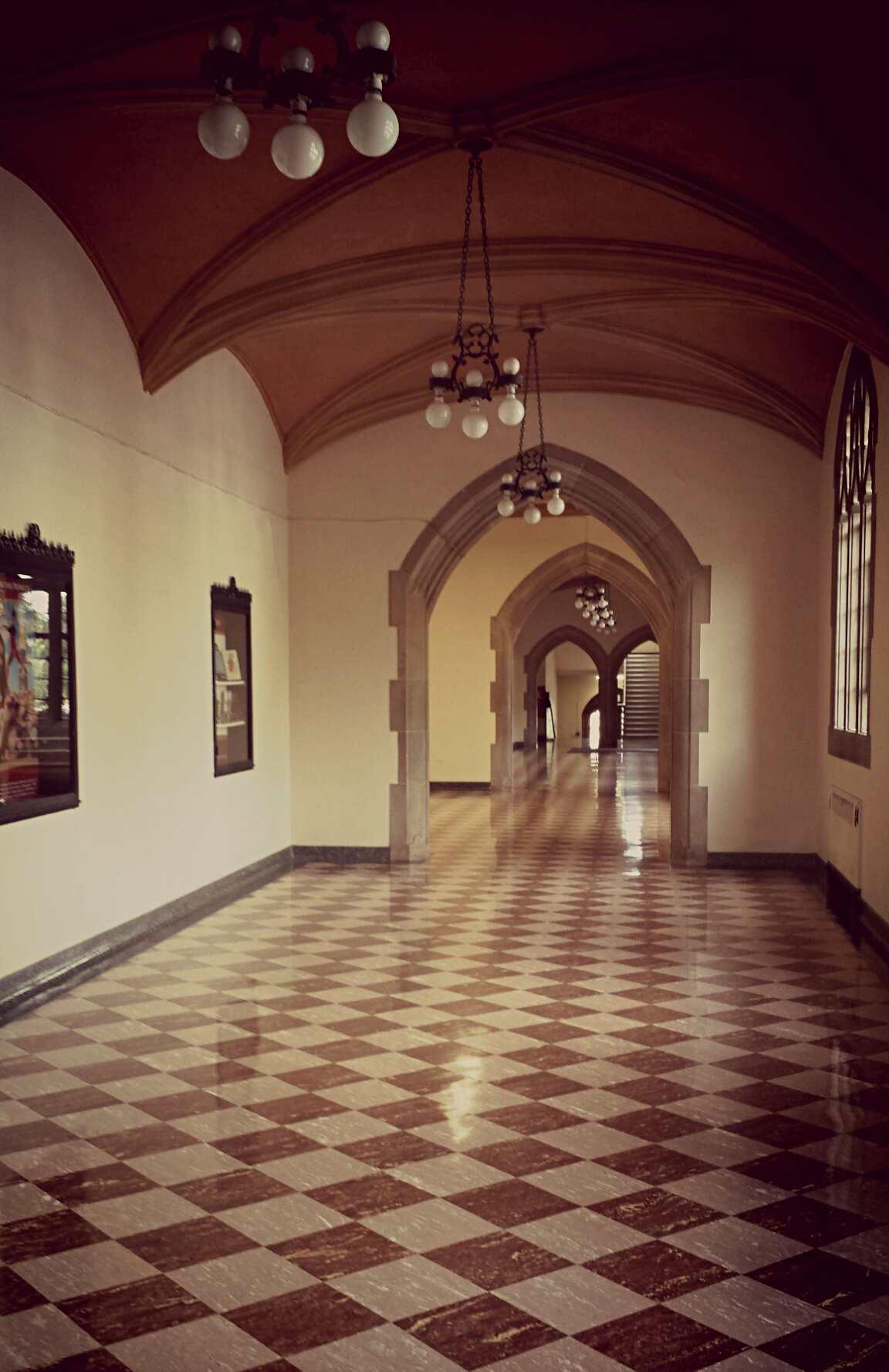 Interior hall in Mary Reed building. When I went to college, there were students in it!